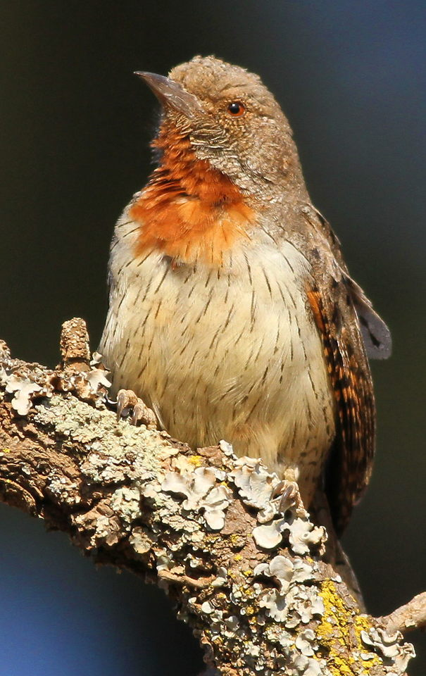 Red-throated Wryneck, Jynx ruficollis at Rietvlei Nature Reserve, Gauteng, South Africa